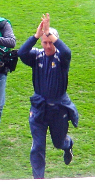 Alan Pardew as manager of West Ham salutes fans after West Ham FA Cup semi-final win against Middlesbrough at Villa Park, Birmingham, April 2006